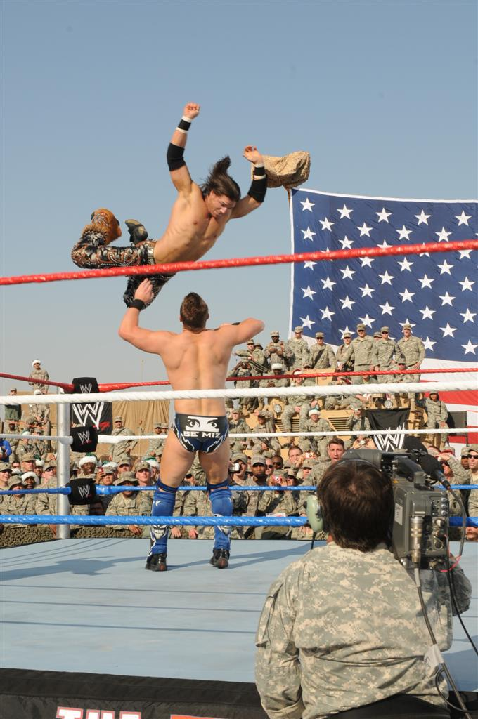 World Wrestling Entertainment superstars John Morrison and the Miz perform for the troops Dec. 4 at Holt Stadium at Joint Base Balad, Iraq. WWE superstars and divas came to Iraq to film and perform the "WWE Tribute to the Troops," which will air Dec. 19 at 9 p.m. Eastern time.